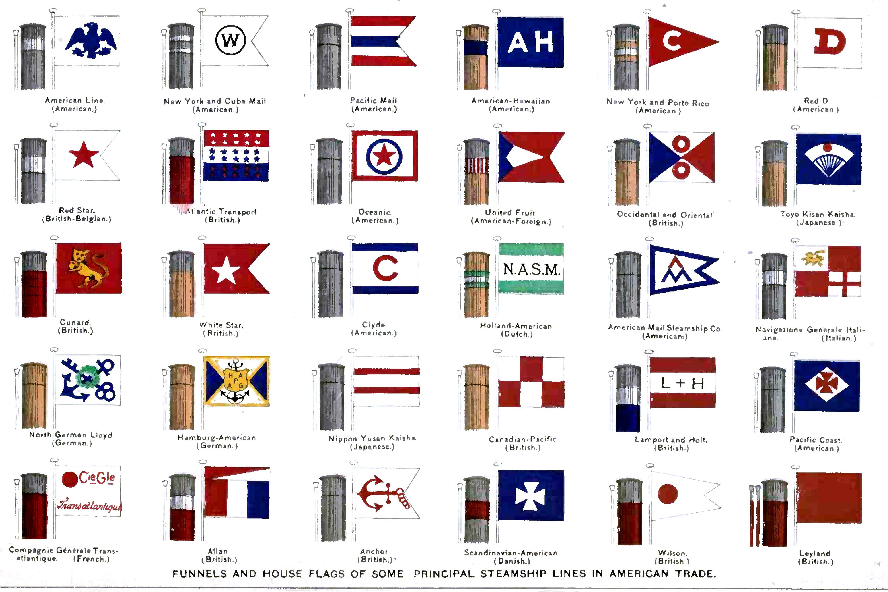 Funnels & house flags of some principal steamship lines in American trade, ca. 1900